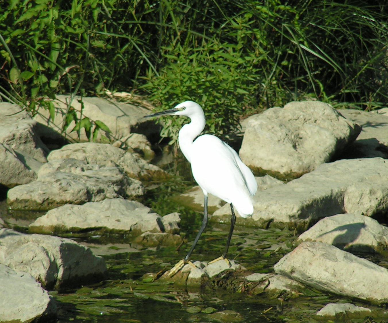 Egretta garzetta on Arno, Florence